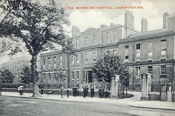 Old postcard of Warneford Hospital, Leamington Spa